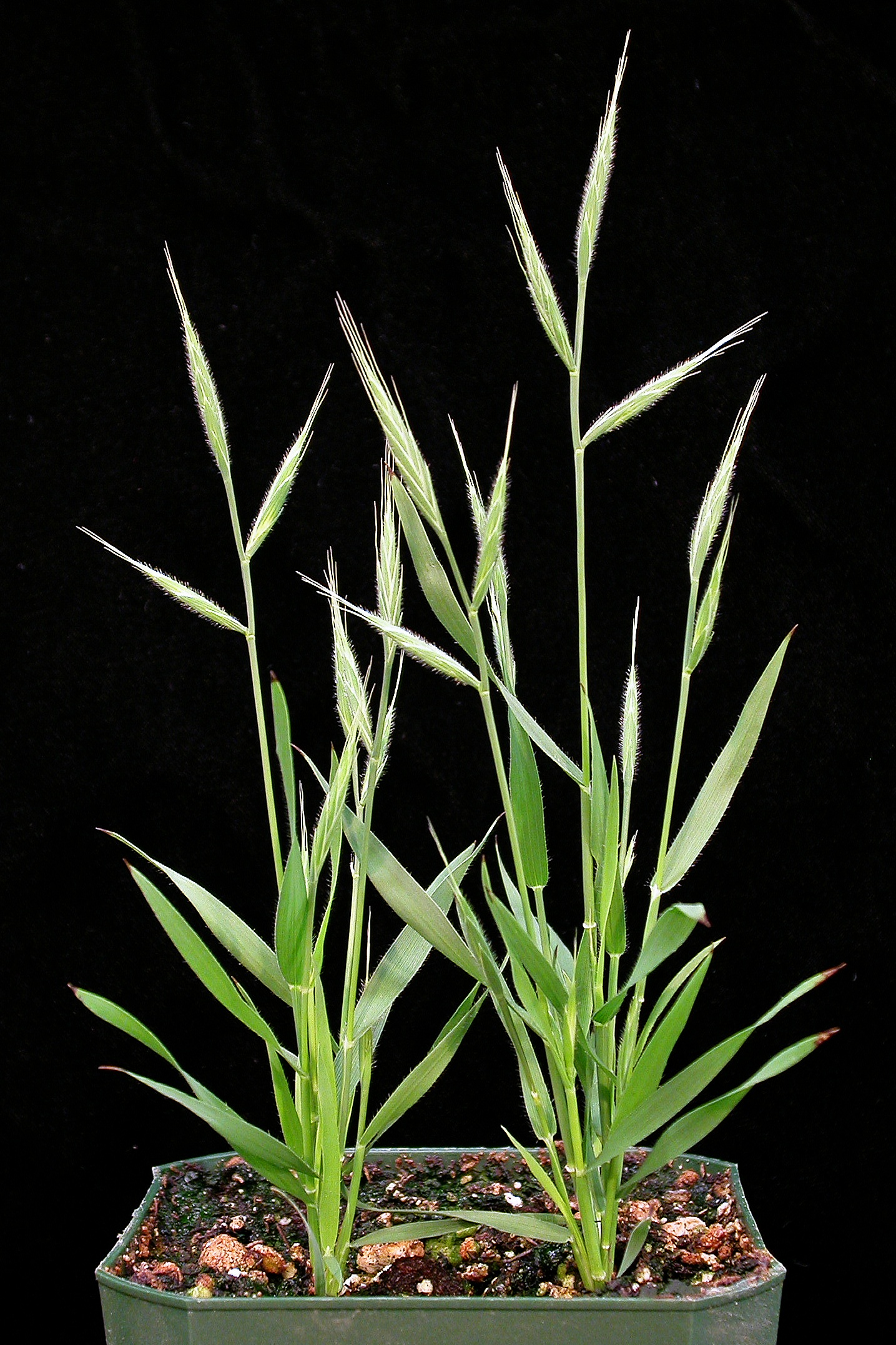 Brachypodium distachyon (L.) P.Beauv. Inbred line Bd21-3; 28-day old plants; plant height 15 cm